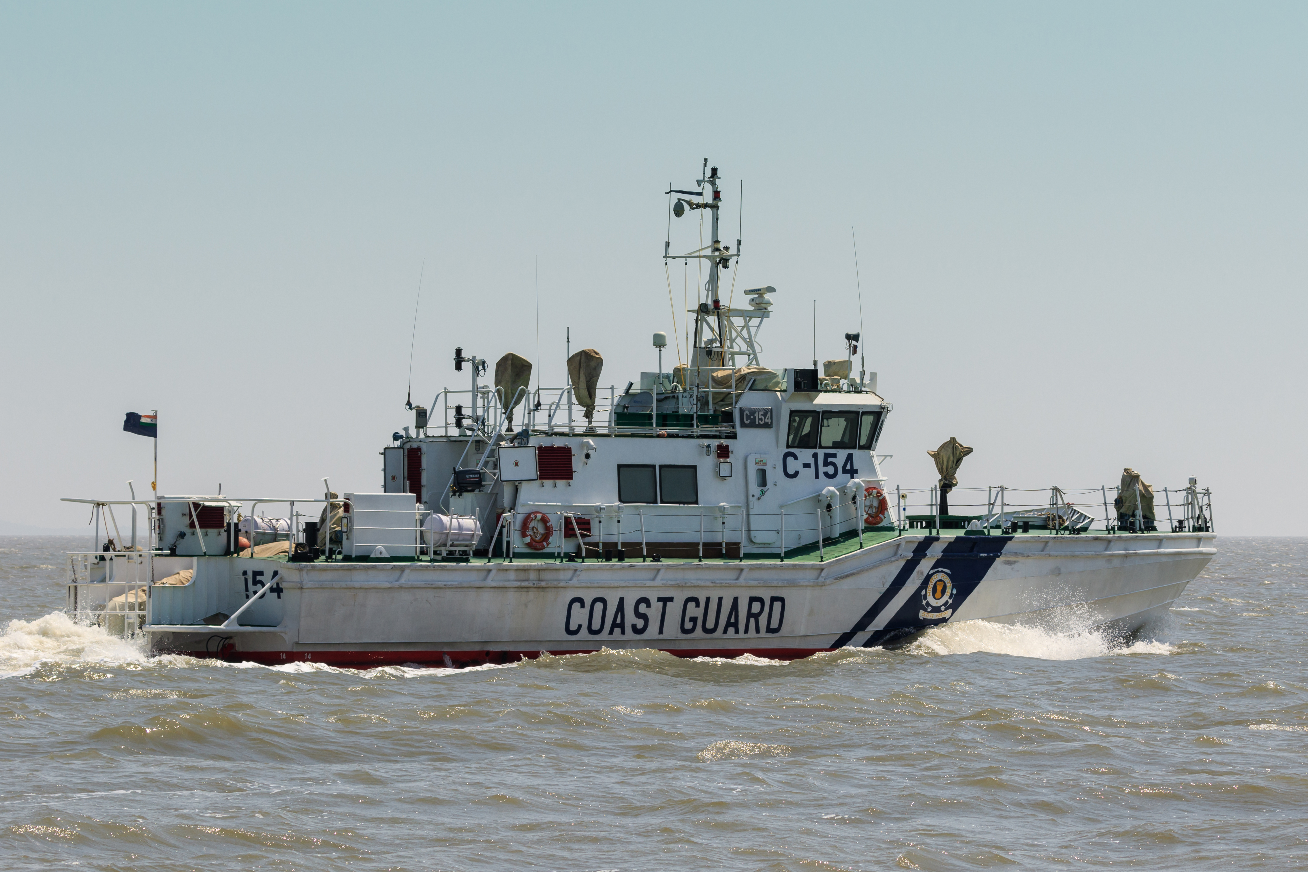 Ship at Mumbai Harbour. Taken from Mumbai-Elephanta ferry. Maharashtra, India.